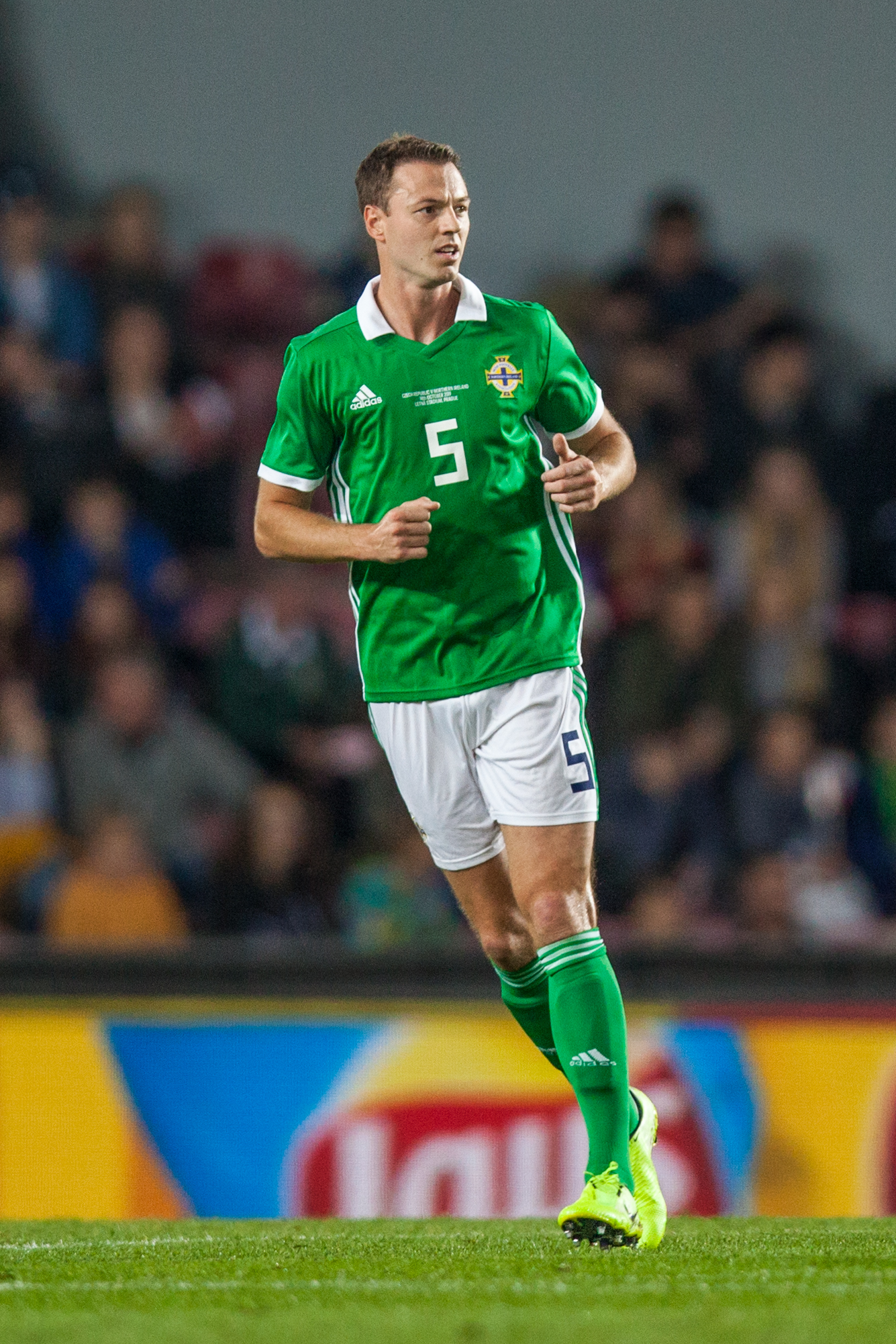 Jonny Evans in an international friendly match between Czech Republic and Northern Ireland (2:3), Stadion Letná (Prague) 2019-10-14 The making of this work was supported by Wikimedia Austria. For other files made with the support of Wikimedia Austria, please see the category Supported by Wikimedia Österreich. Personality rights warningAlthough this work is freely licensed or in the public domain, the person(s) shown may have rights that legally restrict certain re-uses unless those depicted consent to such uses. In these cases, a model release or other evidence of consent could protect you from infringement claims.